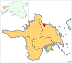 Location map of Kärdla town, Estonia. Used location map of Hiiu County created by Siim.